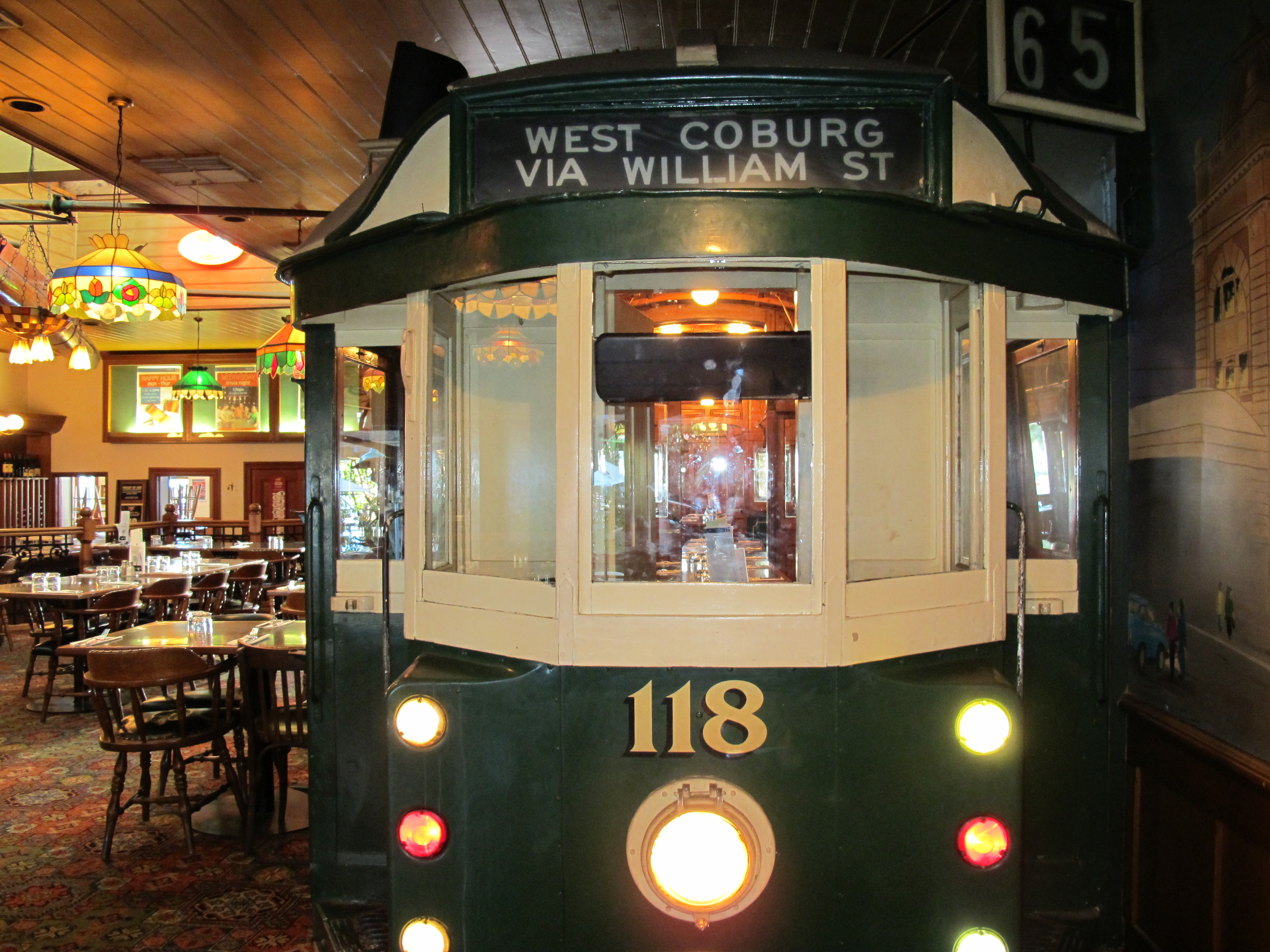 This is a photo of an Melbourne tram that has been used as a private dinning room in the Albion Hotel